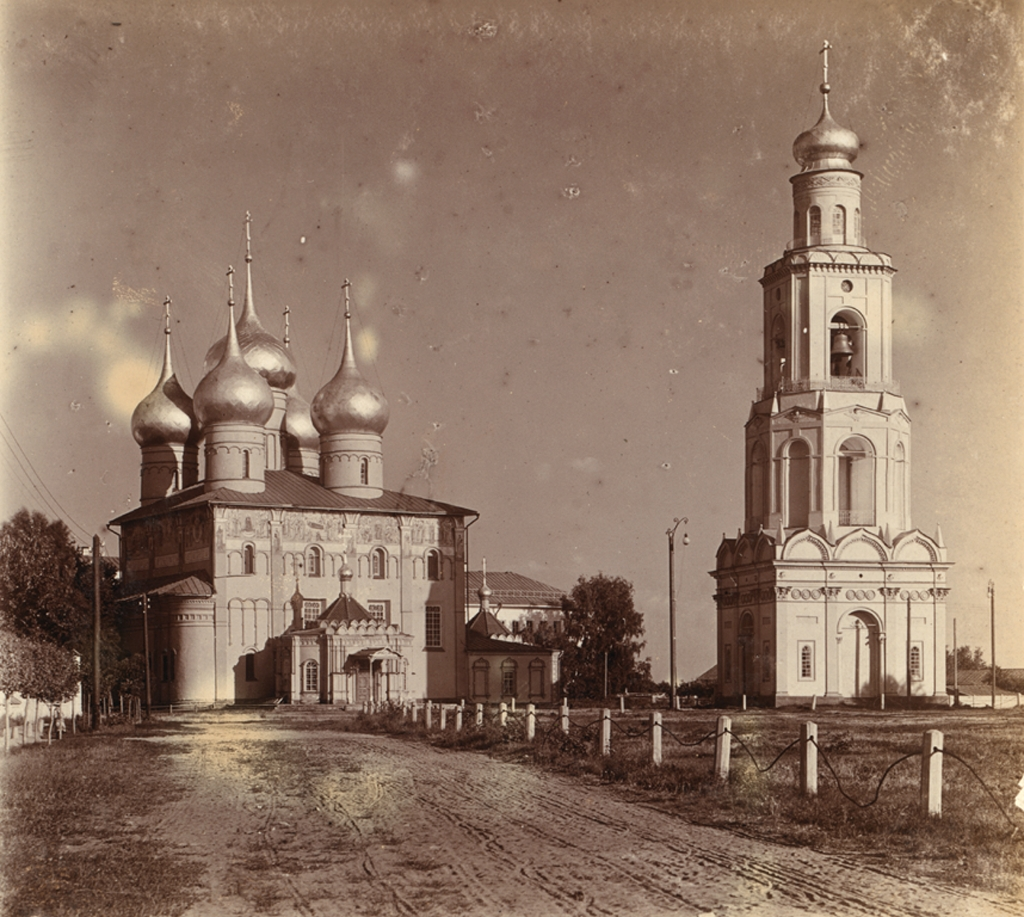 The Dormitional Cathedral. Yaroslavl, 1910. Photographer S. M. Prokudin-Gorskii.